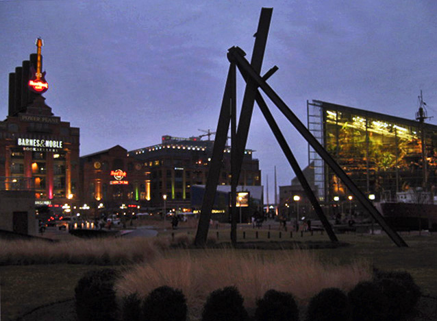 Portion of Baltimore's Inner Harbor neighborhood